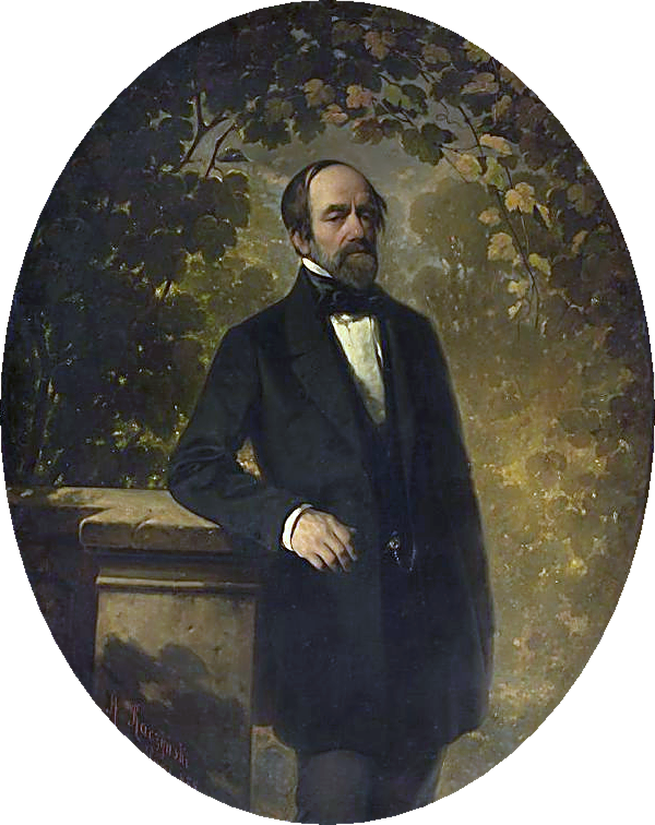 Józef Bohdan Zaleski